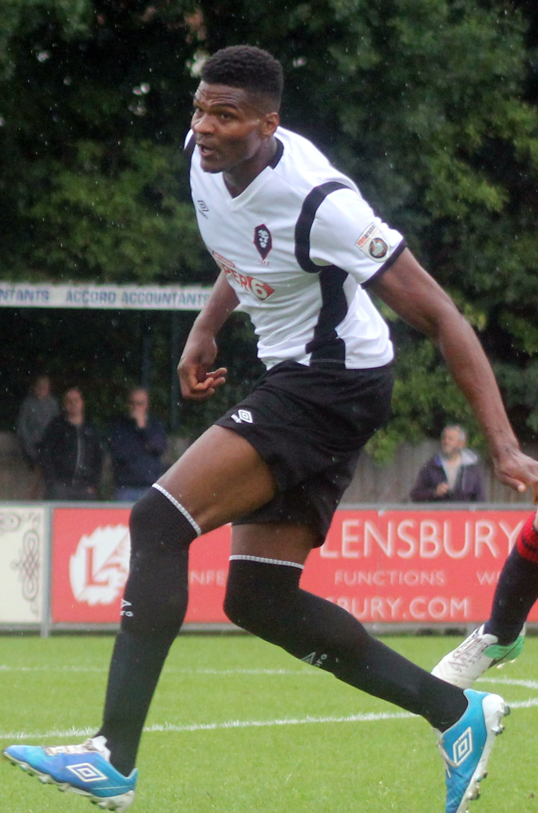 Michael Nottingham (left) of Salford City and Harry Crawford (right) of Hampton & Richmond Borough during the Jacob Sylvester Trophy match at The Beveree Stadium, Hampton, England on Saturday 29 July 2017.